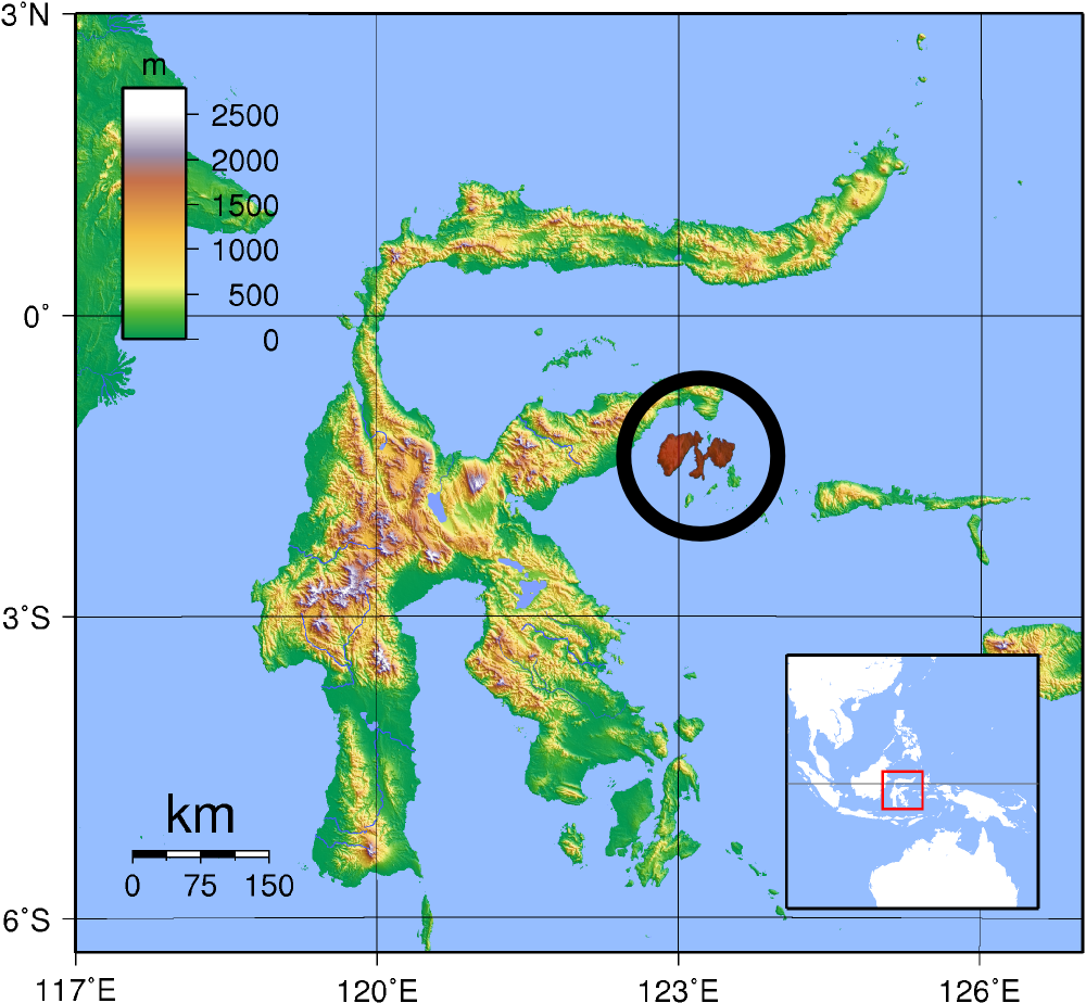 range of Tarsius pelengensis (Peleng Tarsier)